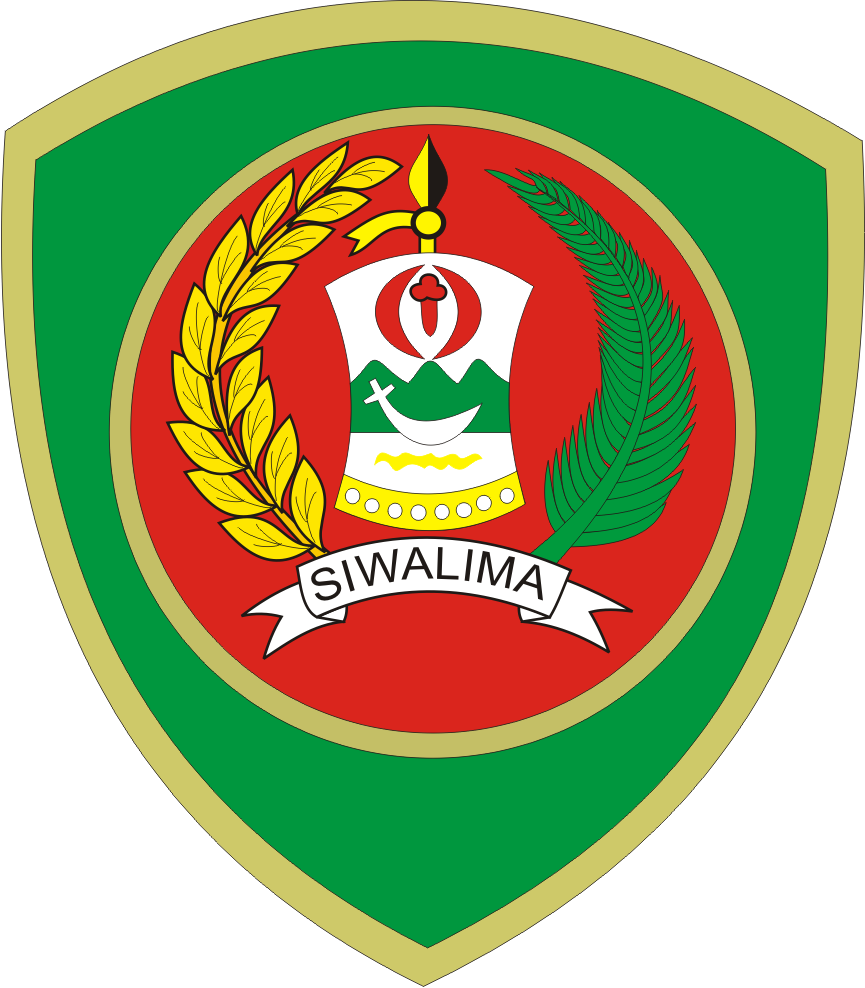 Coat of Arms of Indonesian province of Maluku.